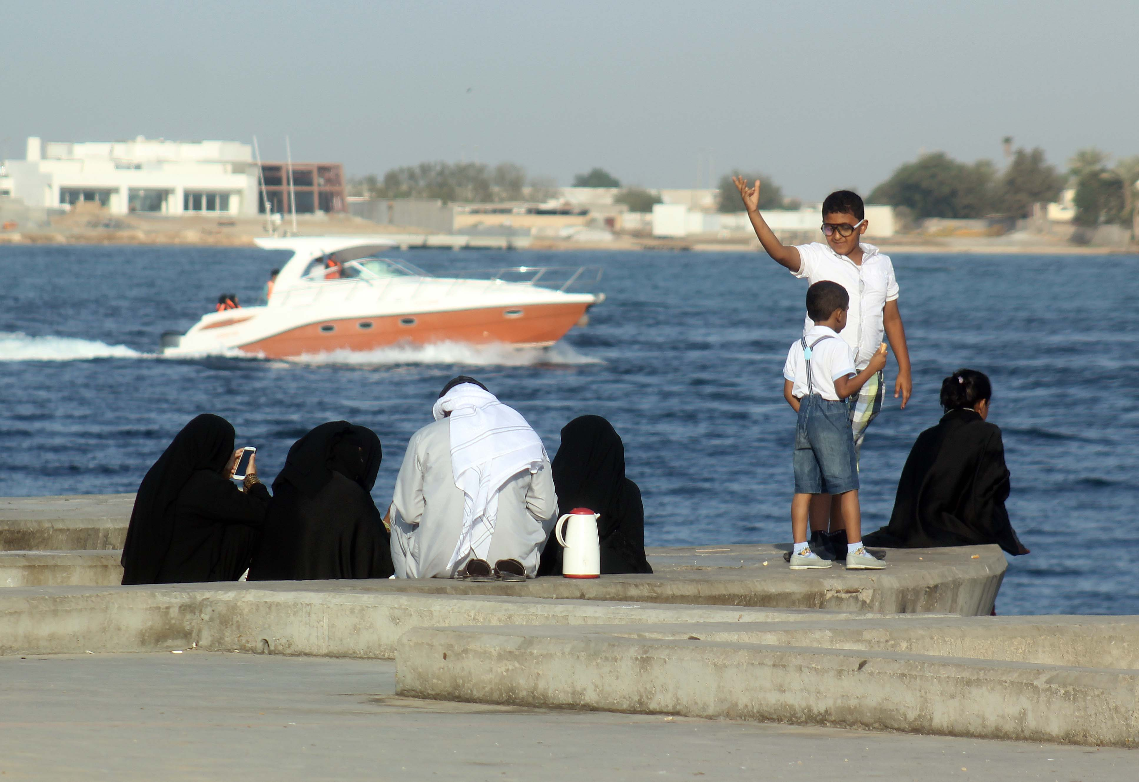 watching boating activities